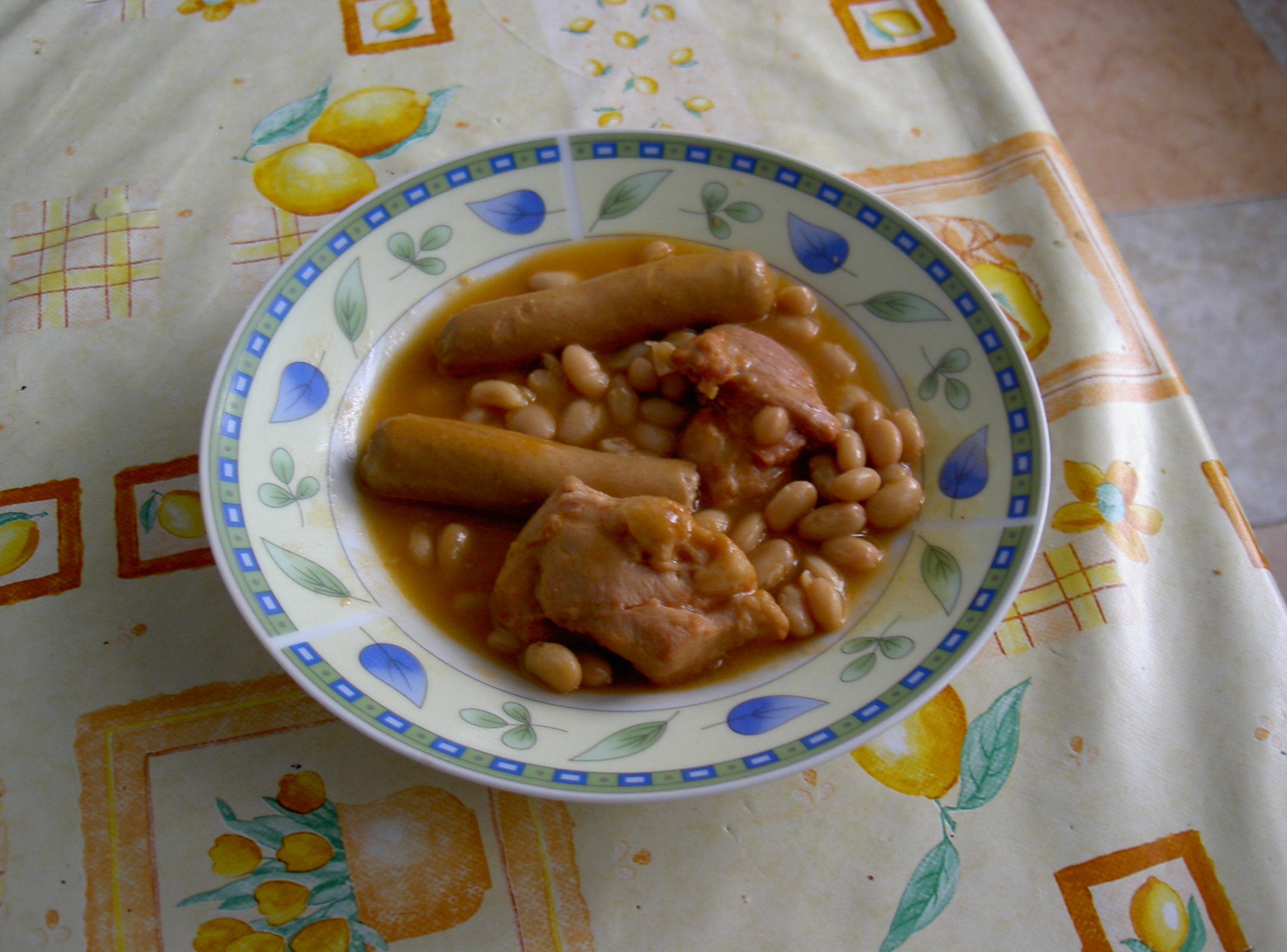 Cassoulet, a typical dish from France.